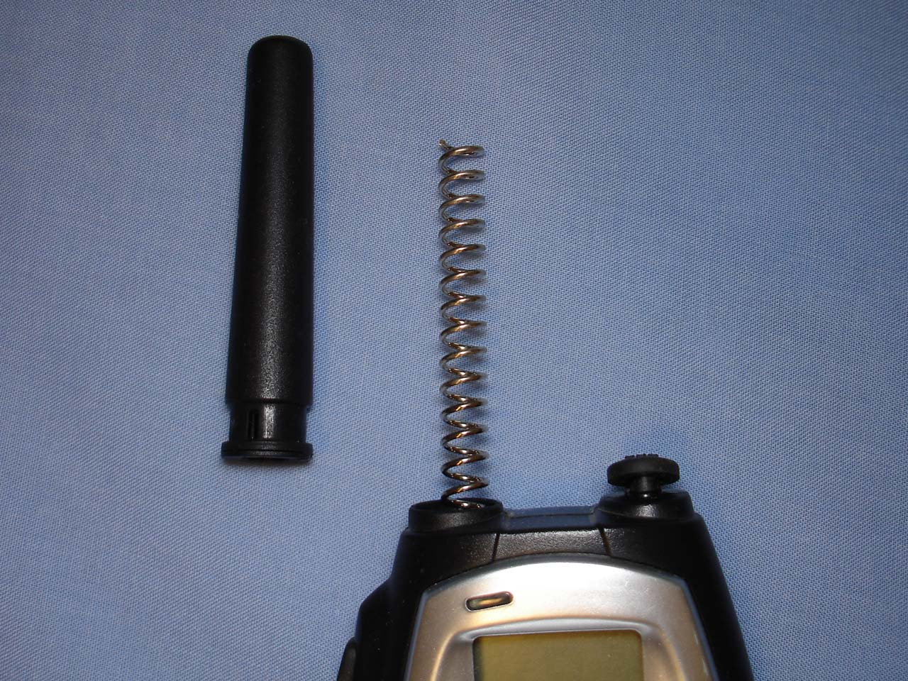 UHF CB transciever with rubber antenna cover removed. This type of antenna is called a "Rubber Ducky" antenna. The helix provides distributed inductive loading to allow the antenna to be shorter than the length of an ordinary whip antenna, a quarter-wavelength, and still be resonant.